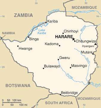 Zimbabwe map from CIA World Factbook, converted from original GIF format